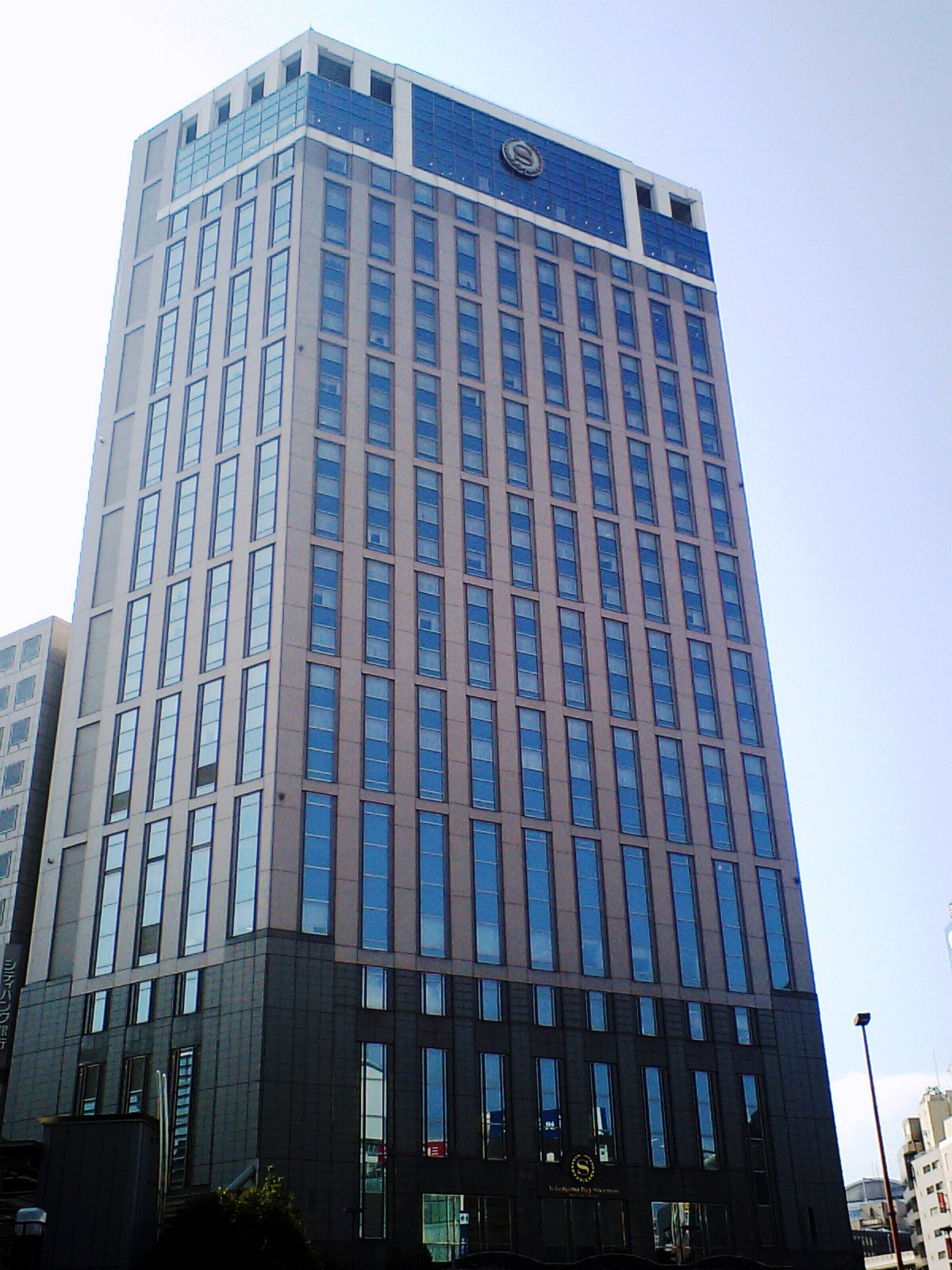 Yokohama Bay Sheraton Hotel & Towers